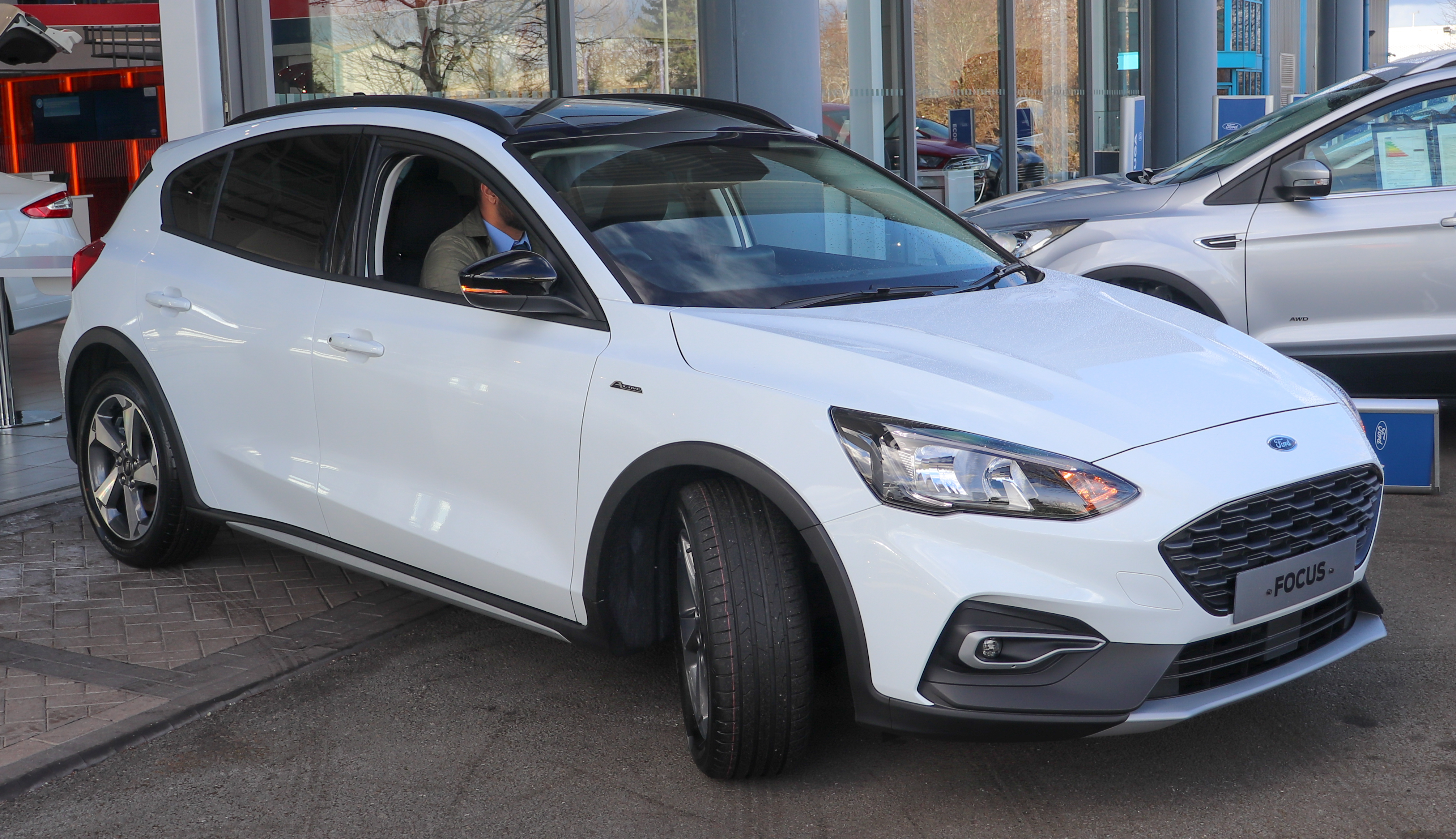 2019 Ford Focus Active Ecoboost 1.0 Front Taken in Leamington Spa